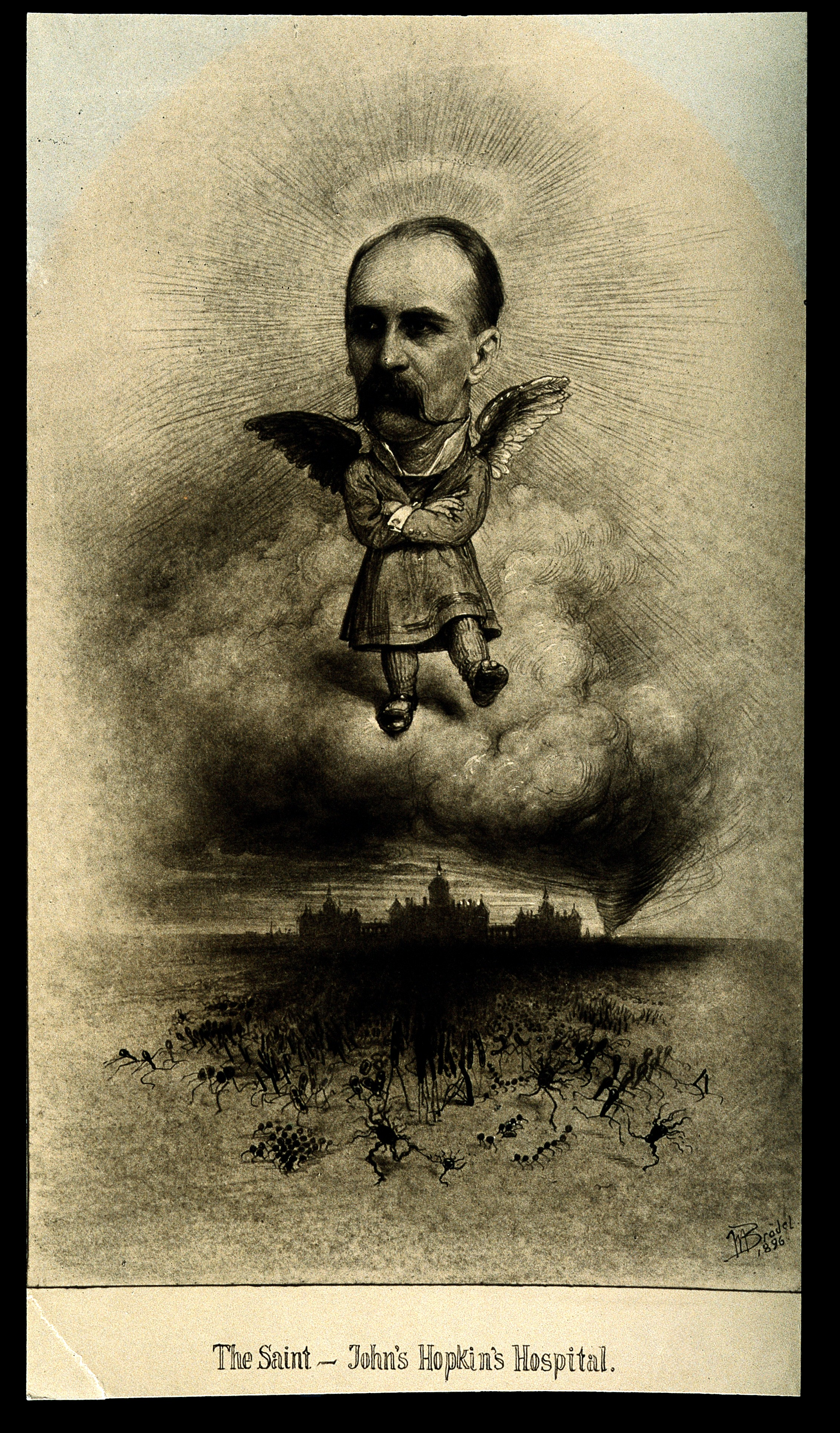 Sir William Osler. Photogravure by M. Brödel, 1896. Iconographic Collections Keywords: portrait prints; William Osler; photogravures